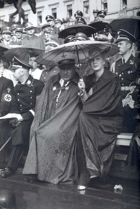 (from left) Heinrich Himmler (Reichsführer SS), Robert Ley (head of the German Labour Front) with his wife Inge, SS-Hauptsturmführer Karl Freiherr Michel von Tüßling (Philipp Bouhler's personal adjutant), Munich, July 1939